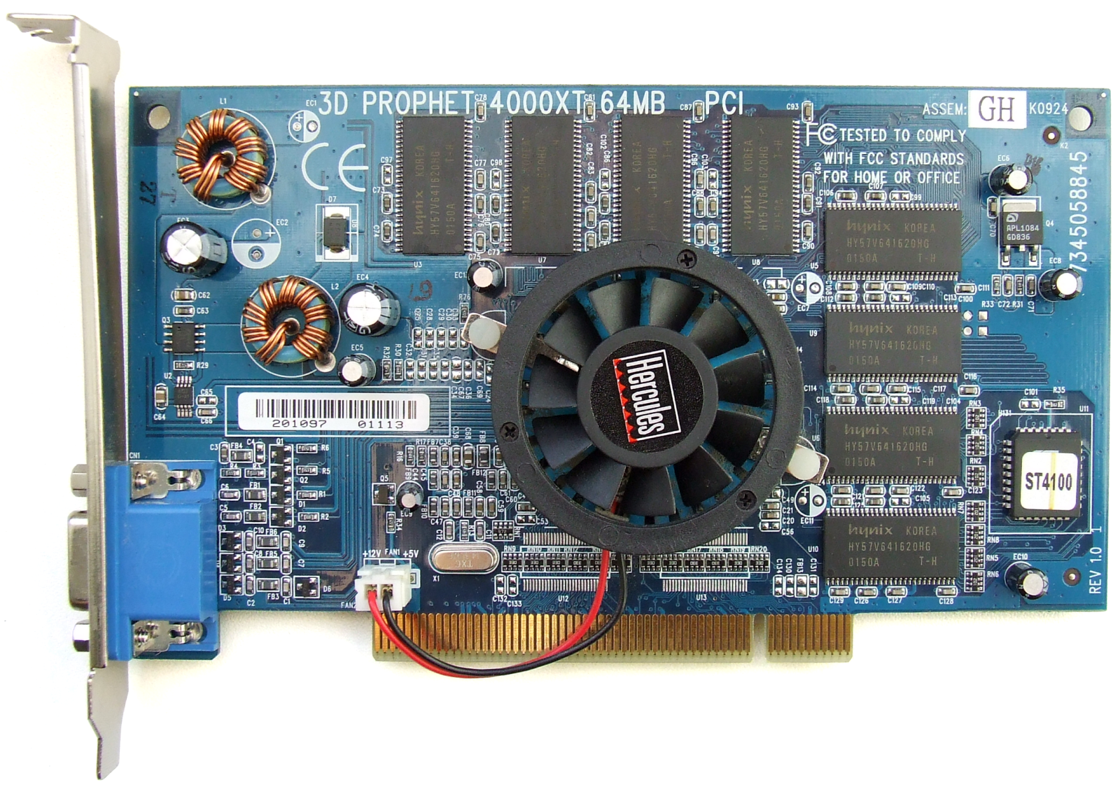 Hercules 3D Prophet 4000XT 64MB PCI video card. It is based on the PowerVR Kyro (STG4000-X) graphics processing unit.